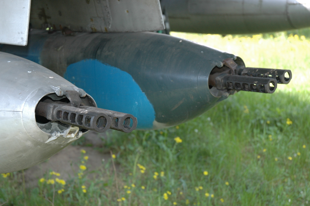 UPK-23_250 containers with GSh-23 aircraft gun (fitted to Sukhoi Su-7)